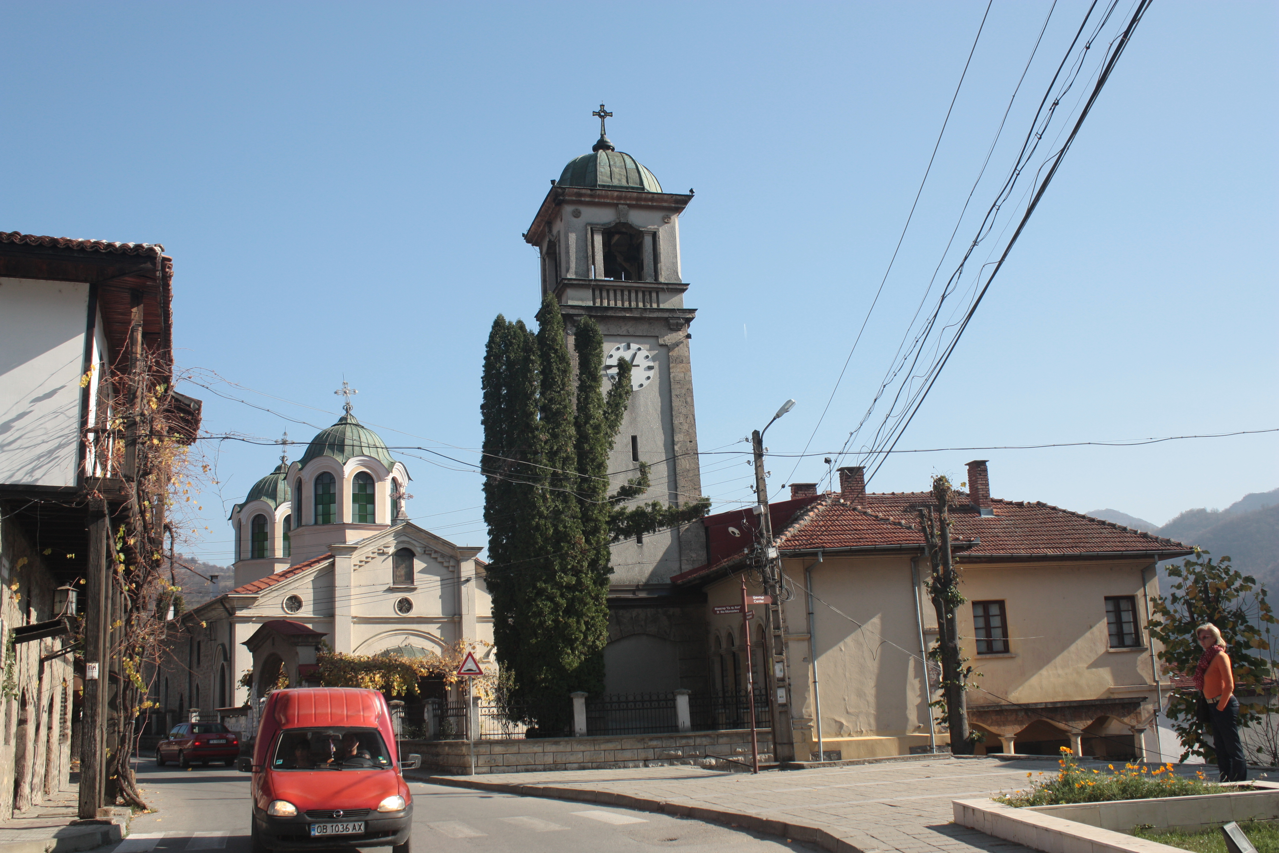 Saint All Saints Church in Teteven